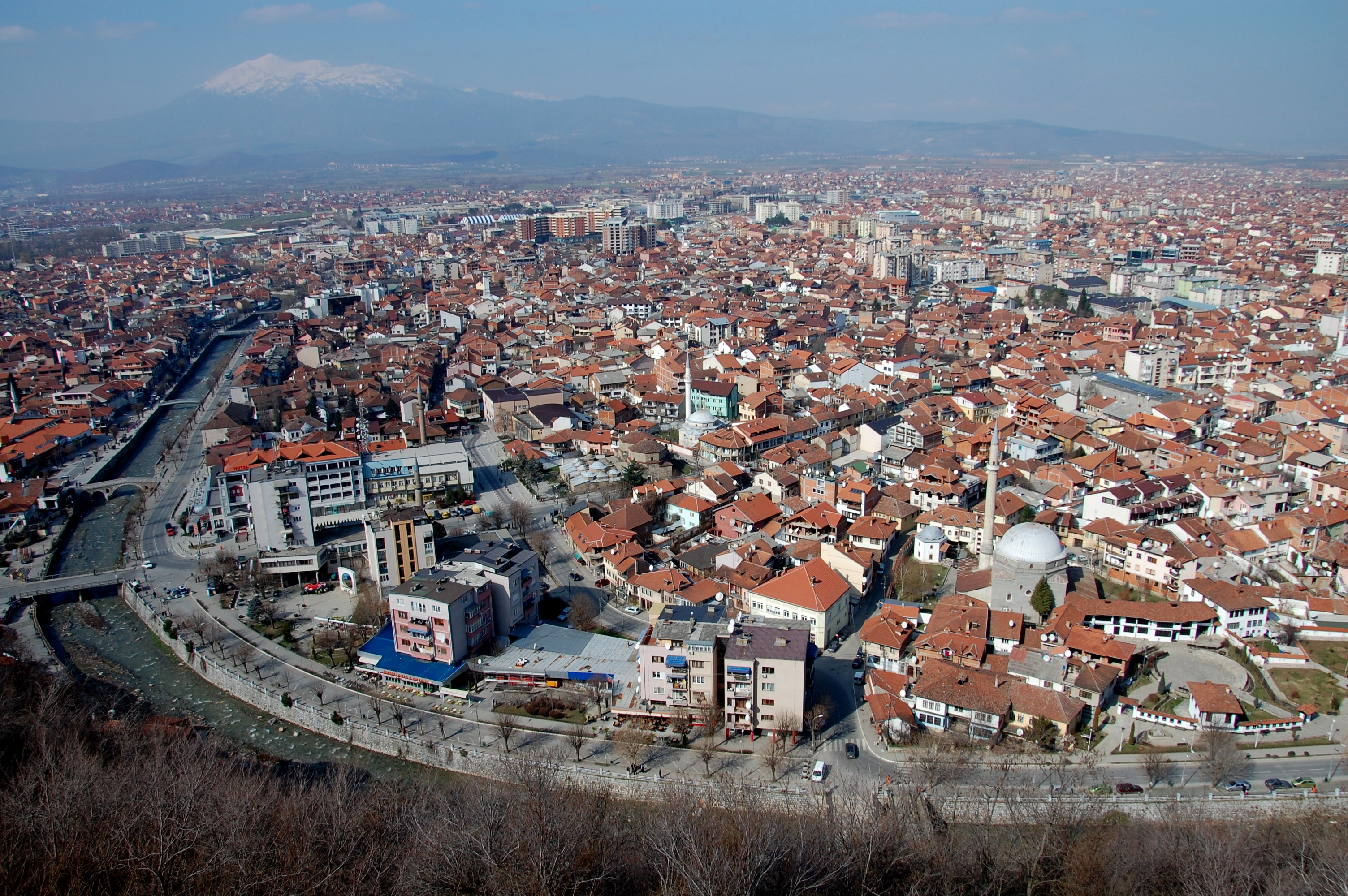 Qyteti i Prizrenit nga Kalaja